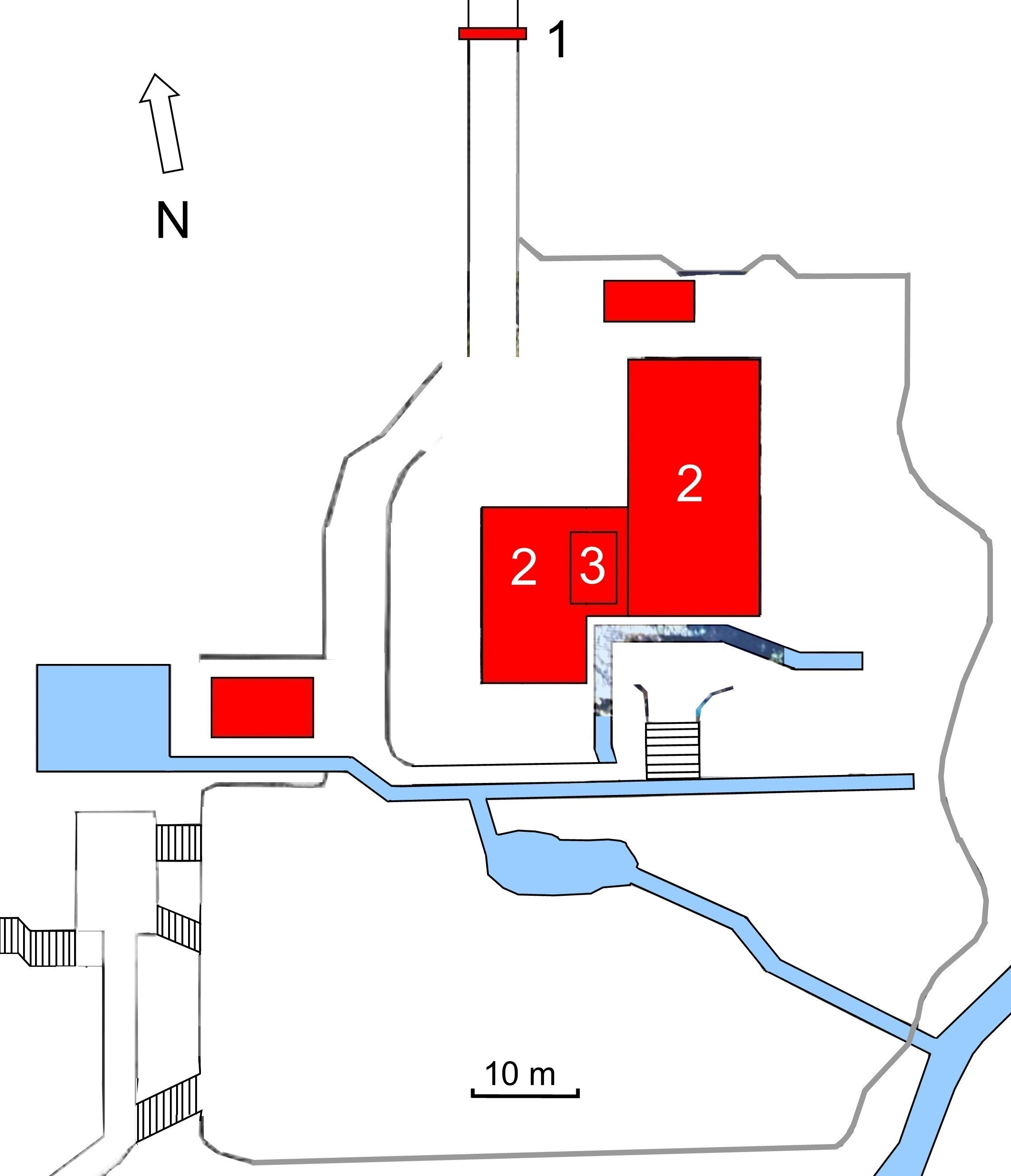 Layout of Shisendô at Kyôto, Japan